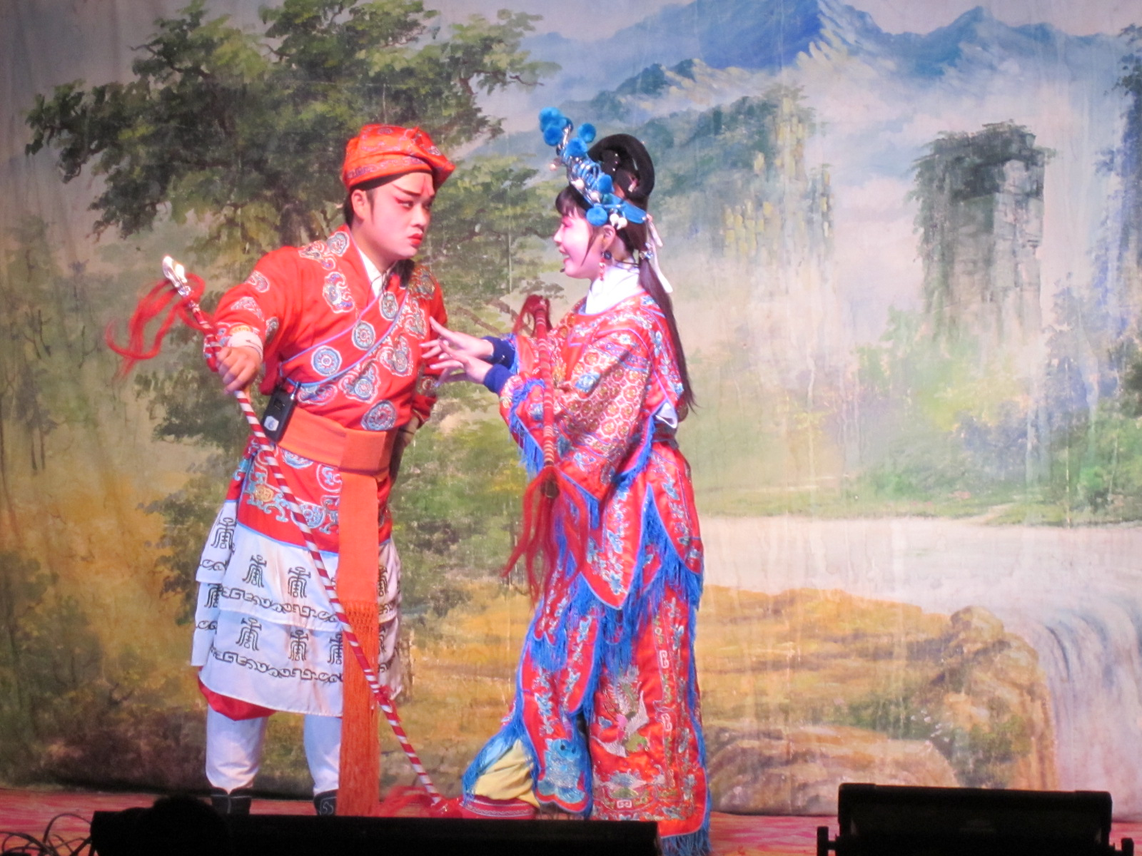 Changsha Flower Drum Opera, Changsha mandarin dialect is used on stage, giving a greater impact to Hunan style of Flower Drum play.